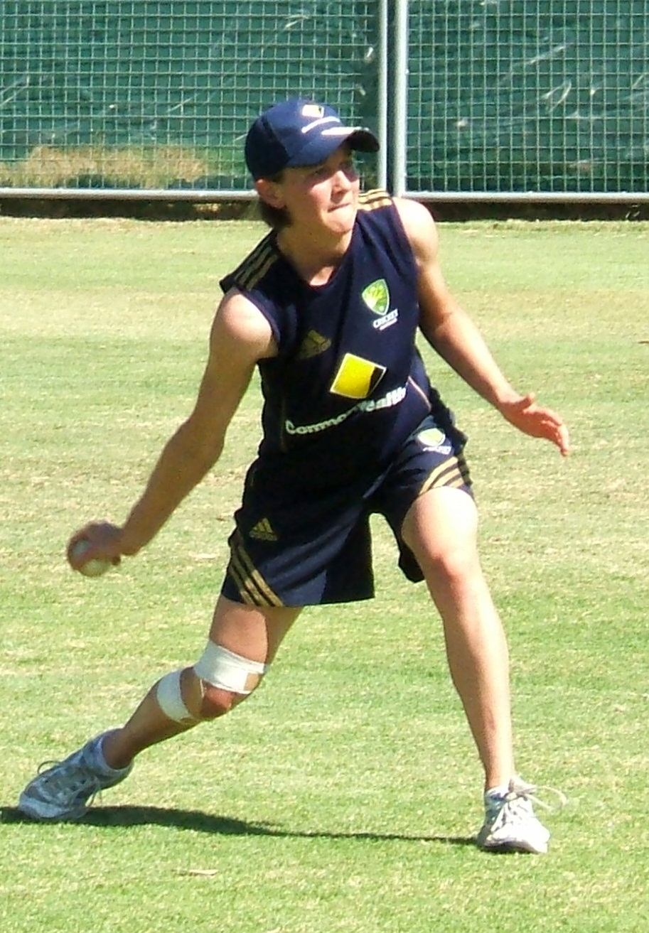 Named person engaging in named action at Adelaide Oval nets/training ground